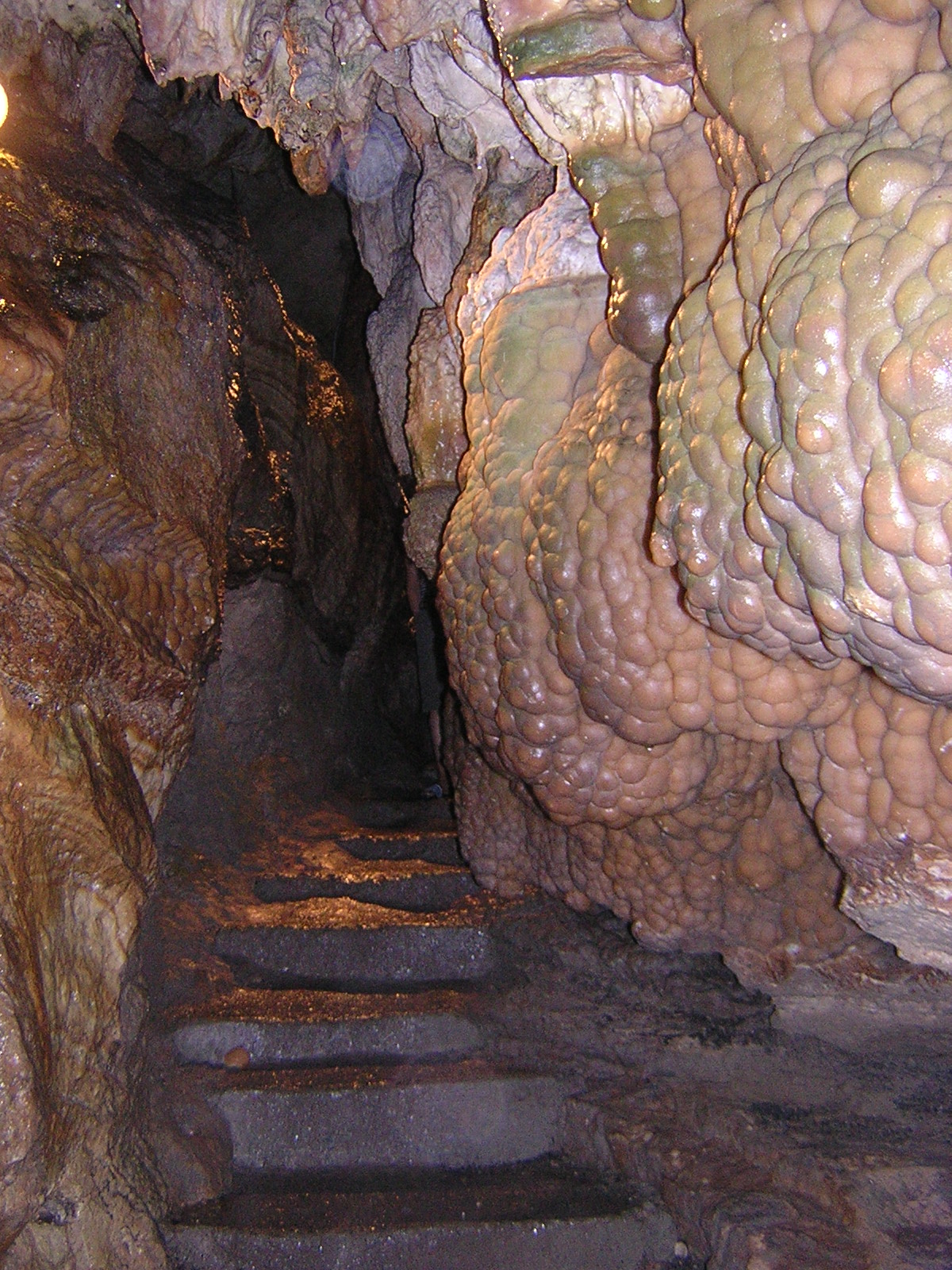 In the inside of the Hell-Grottoes: Artificial stairs next to round lime formations.